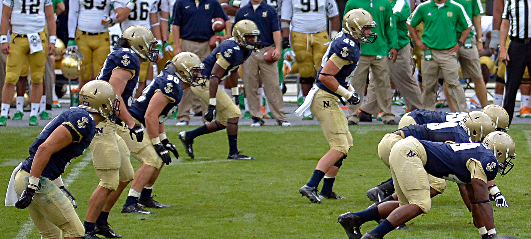 DUBLIN (Sep. 1, 2012) Notre Dame and Navy line up on scrimmage during the NCAA Emerald Isle Classic college football season opener. Notre Dame beat Navy 50-10. (U.S. Navy photo by Mass Communication Specialist 1st Class Peter D. Lawlor/Released) 120901-N-WL435-990